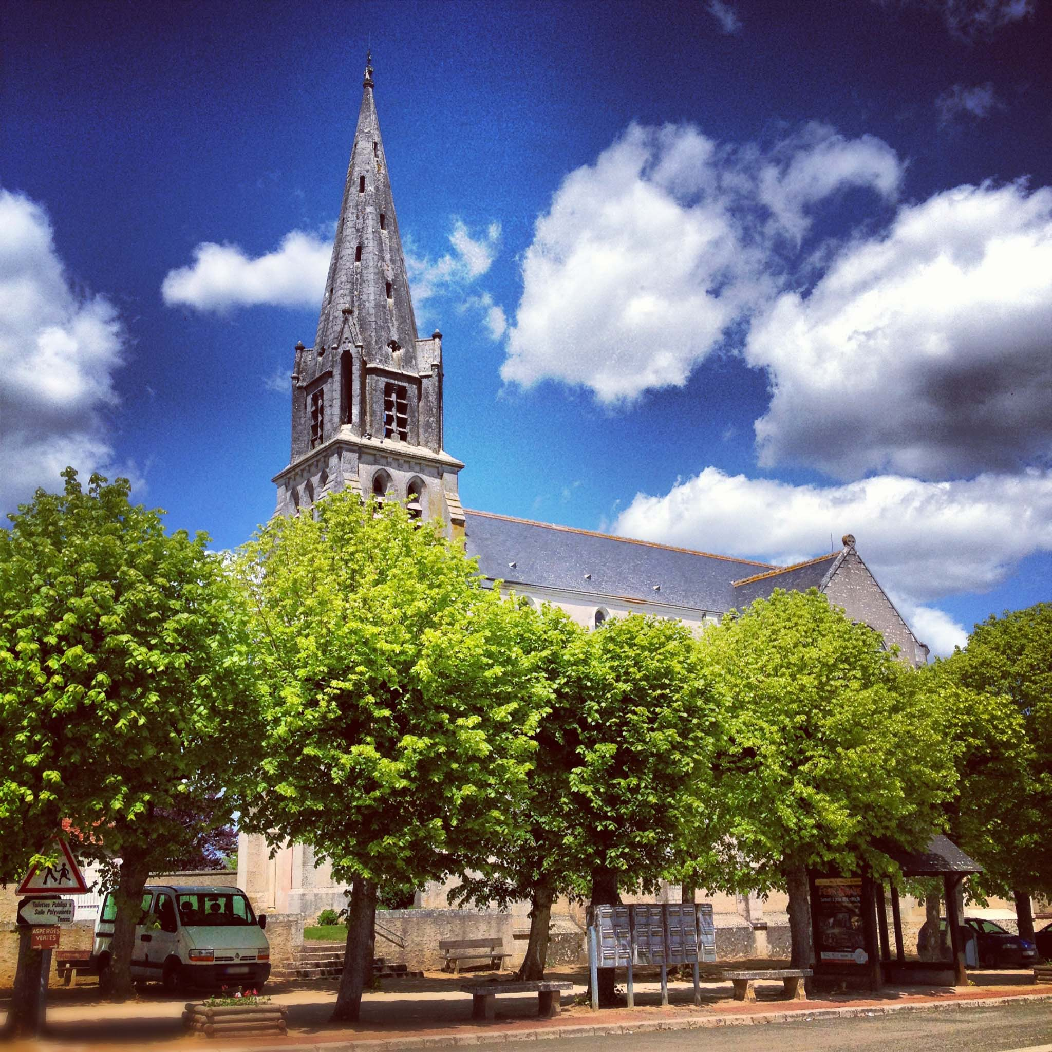 Photo of the church